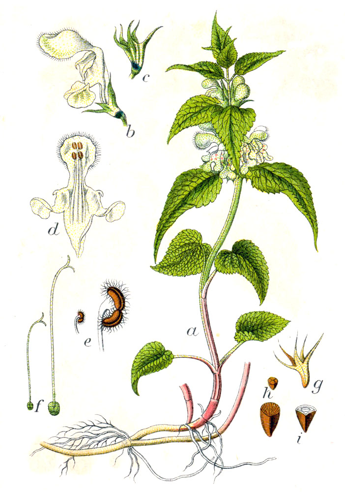 Lamium album L. Original Caption Weisse Bienensaug, Lamium album Corresponding text is at Abt. 1 Bd. 2, page 11 and plate XIV.1